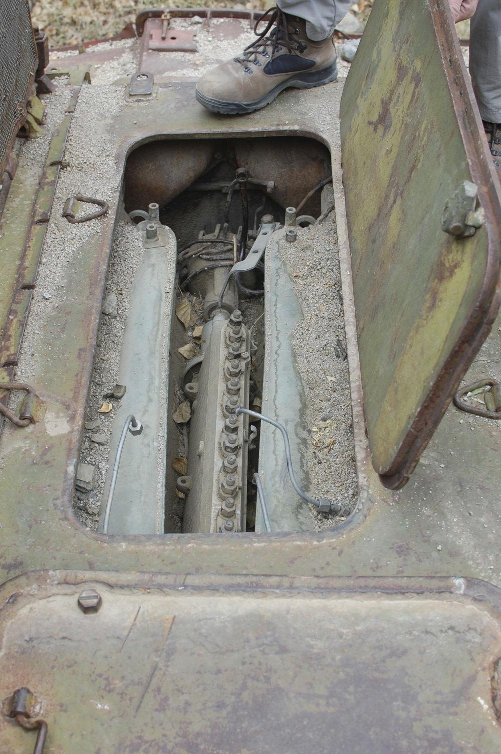 A view into an opened engine deck of an abandoned T-62 in Afghanistan in Panjshir Valley.